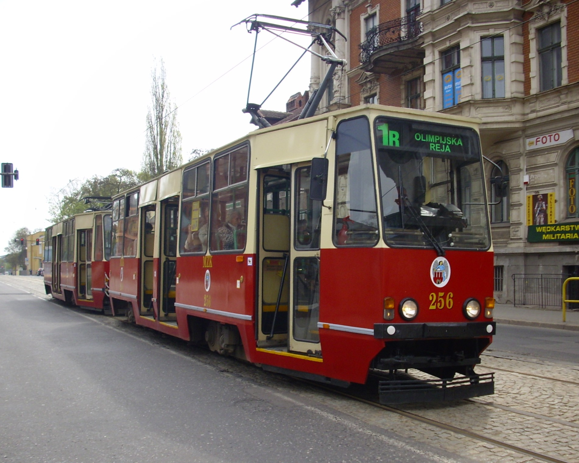 Tram Konstal 805Na in Toruń, Poland.